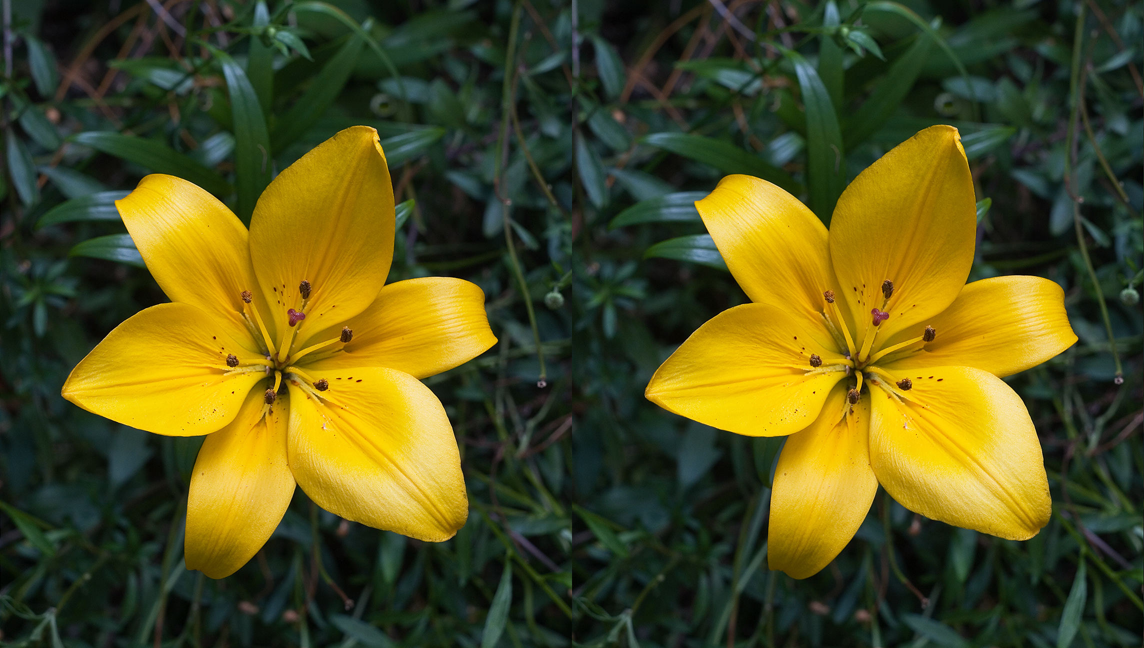 Asiatic hybrid lilium stereogram. To view the image cross your eyes until four images appear, then allow the image to converge to a set of three, focusing on the centre image.